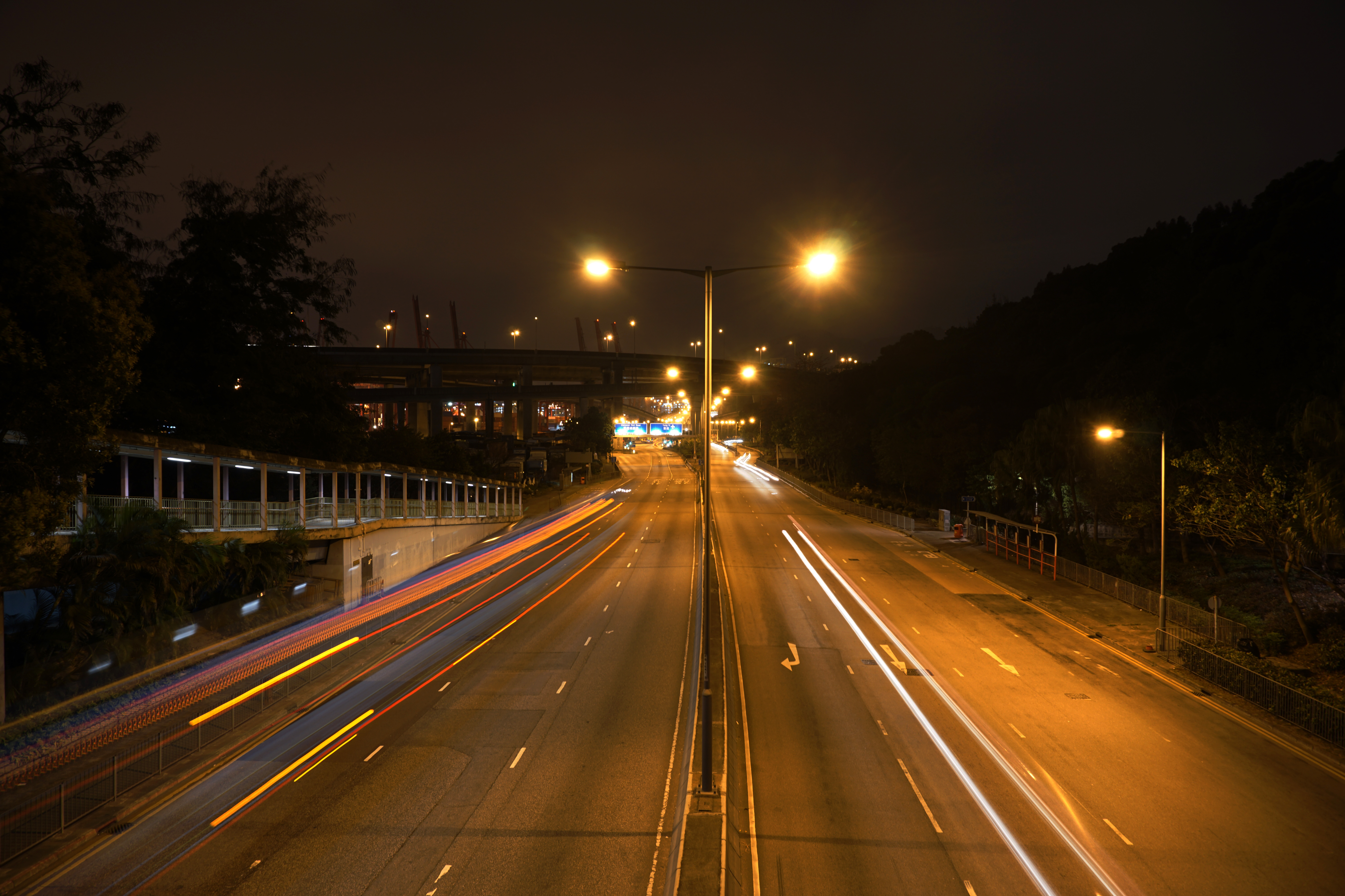 Kwai Tsing Road in Kwai Fong, Hong Kong.